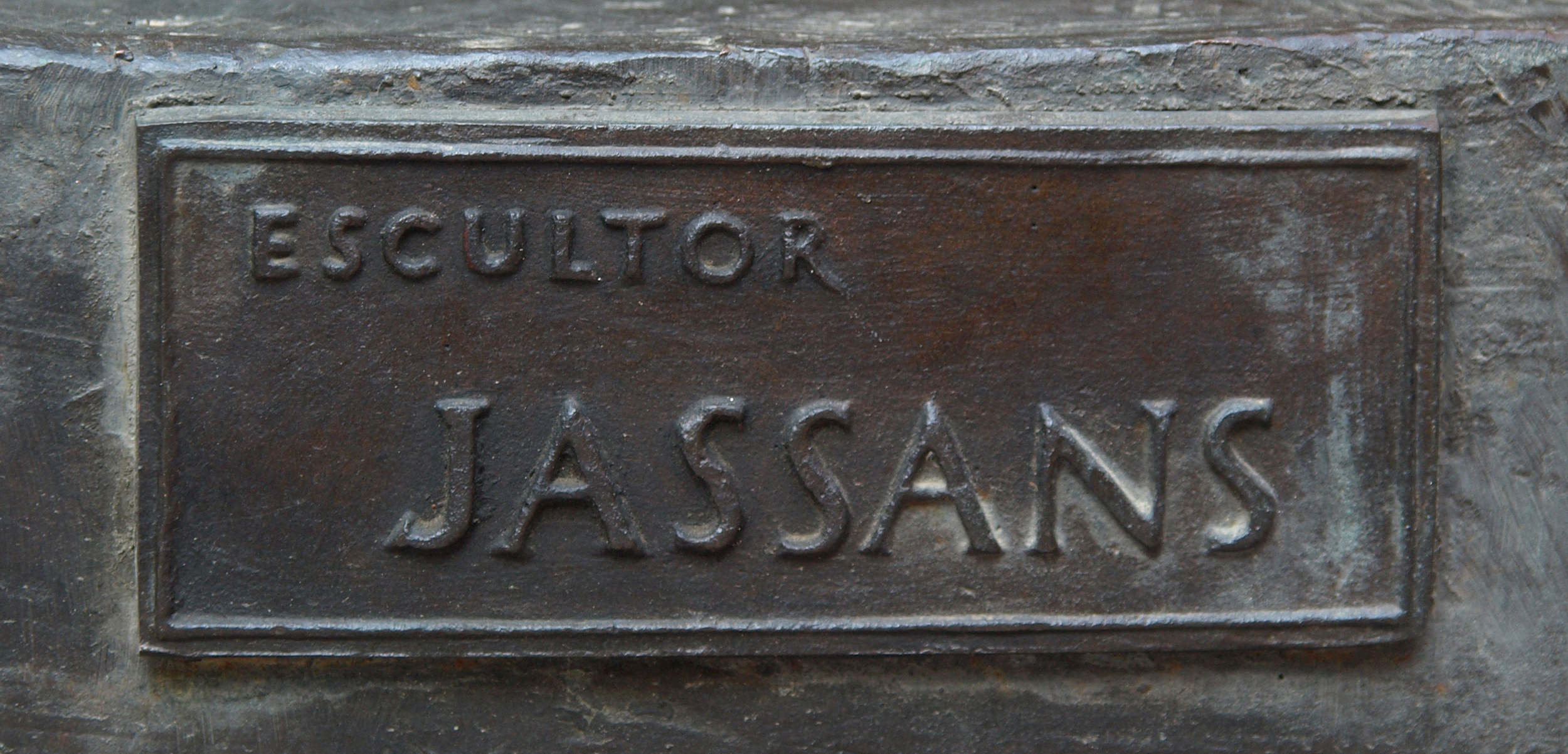 A Lluís Millet, sculpture created by Josep Salvadó Jassans (1991). Located in Palau de la Música Catalana, Barcelona, Spain.